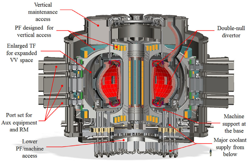 Sketch of the design concept of K-DEMO, a possible future Korean tokamak fusion demonstration reactor. A conceptual design study for K-DEMO was initiated in 2012 targeting the construction by 2037.